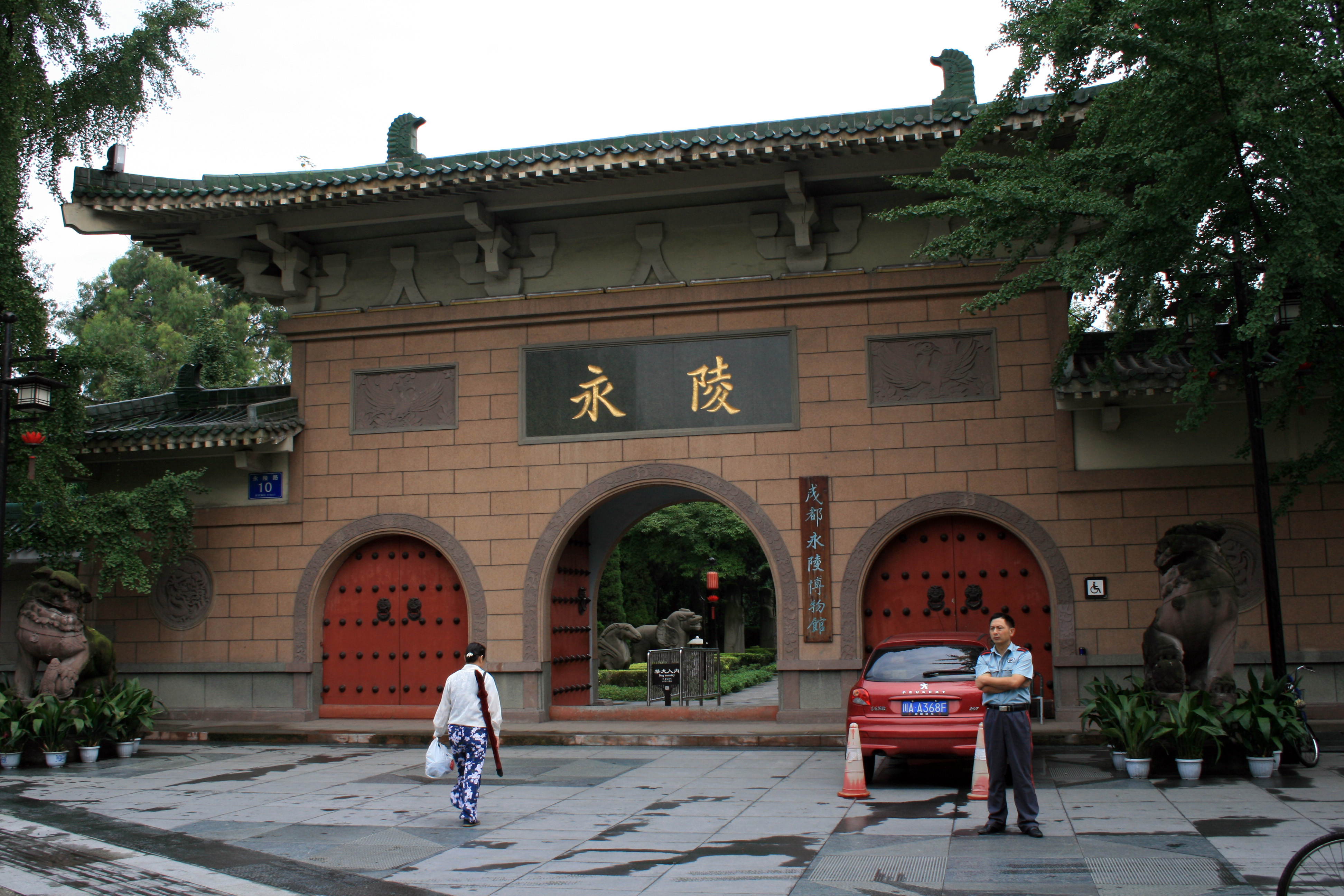 Wang Jian(The first emperor of Former Shu Dynasty)'s Tomb, also known as "Yong Ling" in Chinese